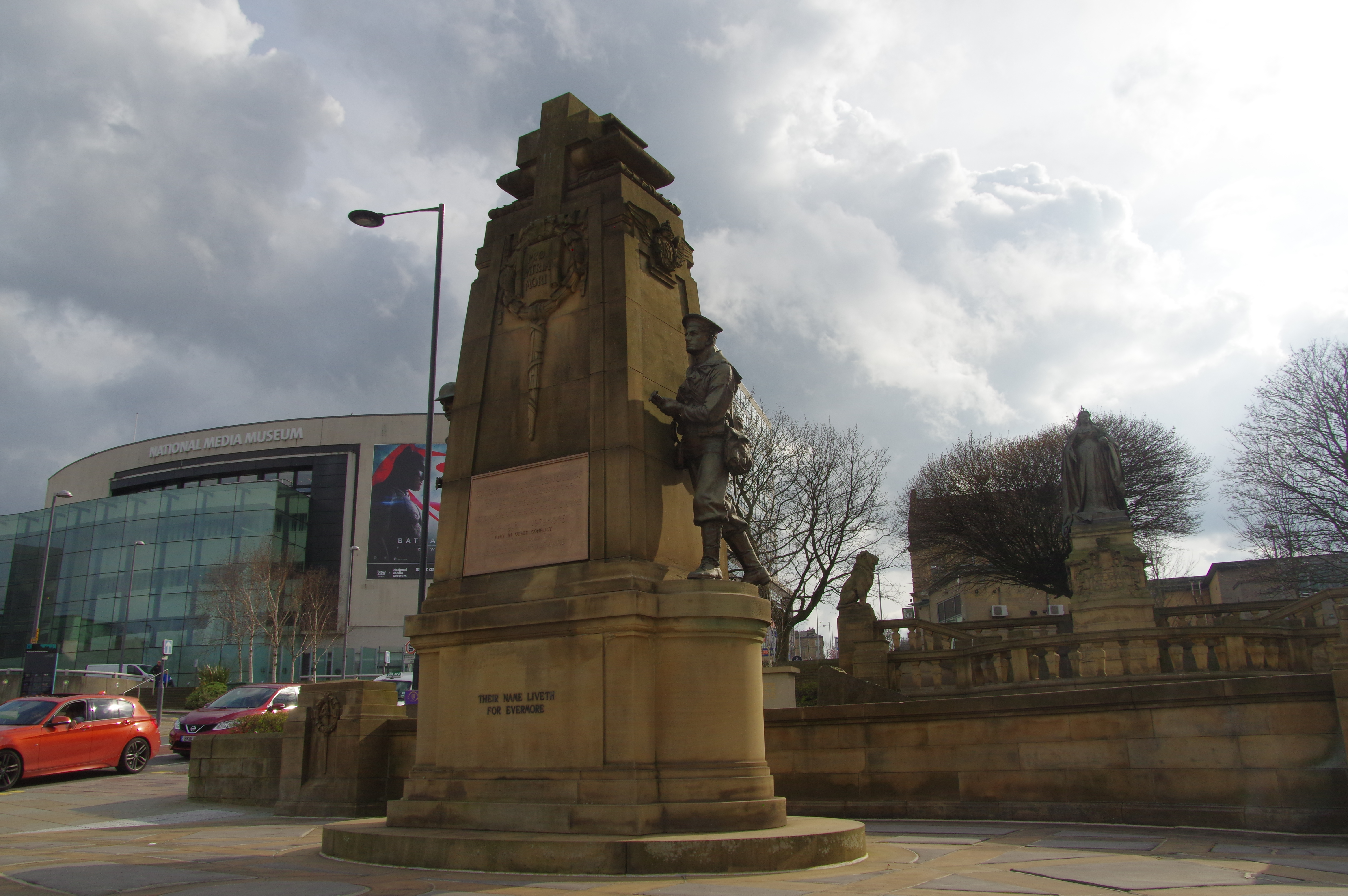 13.4.16 Leeds and Bradford